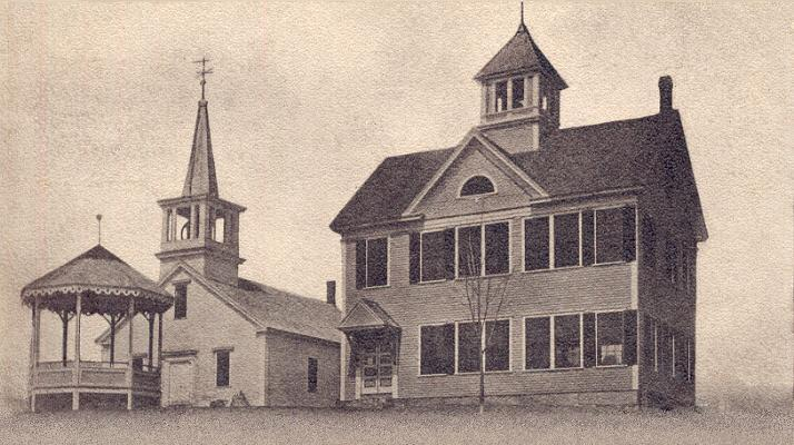 Schoolhouse, Freedom, NH; from a 1911 postcard.